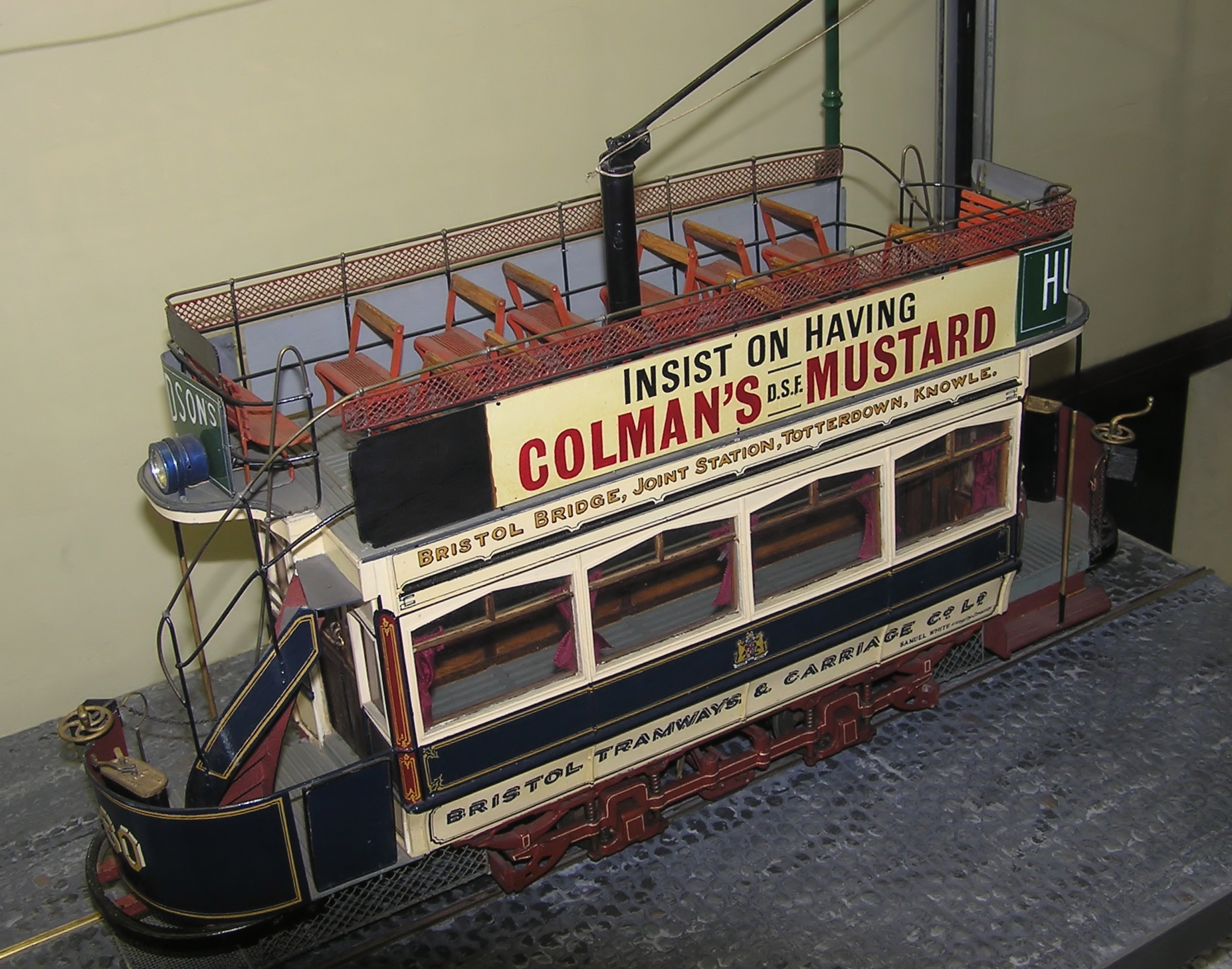 Please note: to avoid repetition of the word “Bristol“, all information and dates below are about City of Bristol trams only. The information is from the signboard next to the model so should be accurate. Scale model of an 1899 Bristol Tramways and Carriage Company Limited electric tram, number 160, in the Industrial Museum, Bristol, England. Horse-drawn trams[ were introduced in 1875 but had a maximum speed of 6 mph. Electric trams were introduced in 1895. At the peak of their use, in 1908, Bristol had 233 in the fleet, running on 31 miles of track. Electricity was picked up from overhead wires, this tram had two GEC 27HP electric motors. Petrol buses started in 1906, but did not fully take over from trams until the final electric tram service ran in 1939. (In 2007 the Bristol Industrial Museum was permanently closed for conversion to the Museum of Bristol. The exhibits are in storage.)